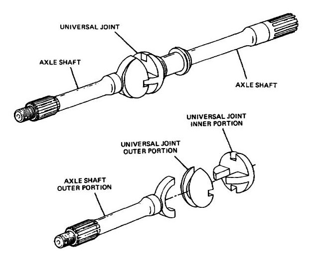 Assembled and exploded view of the Tracta type constant velocity joint.